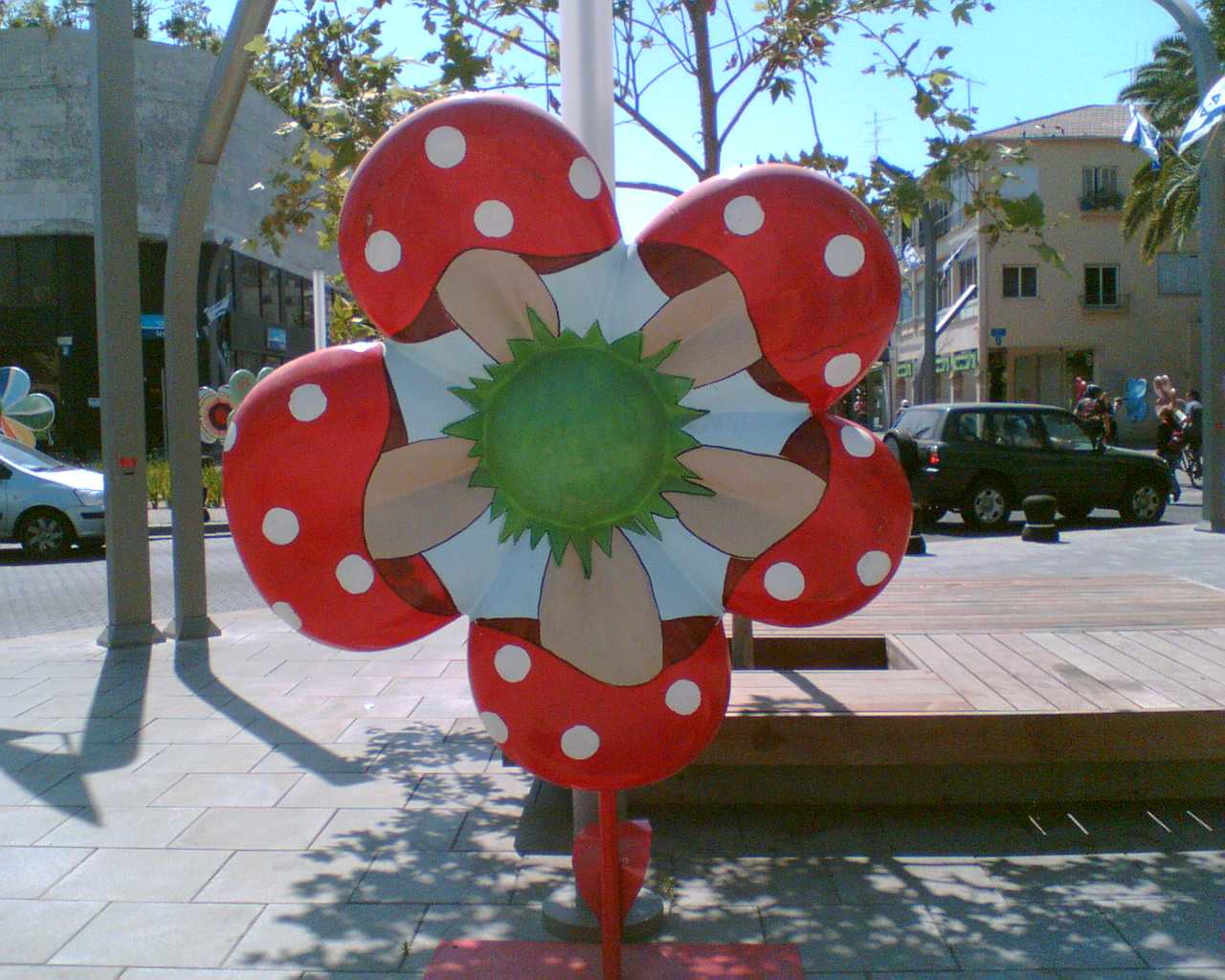 A sculpture painted by Liat Kerner at the Zer Leherzliya street exhibition, 2008